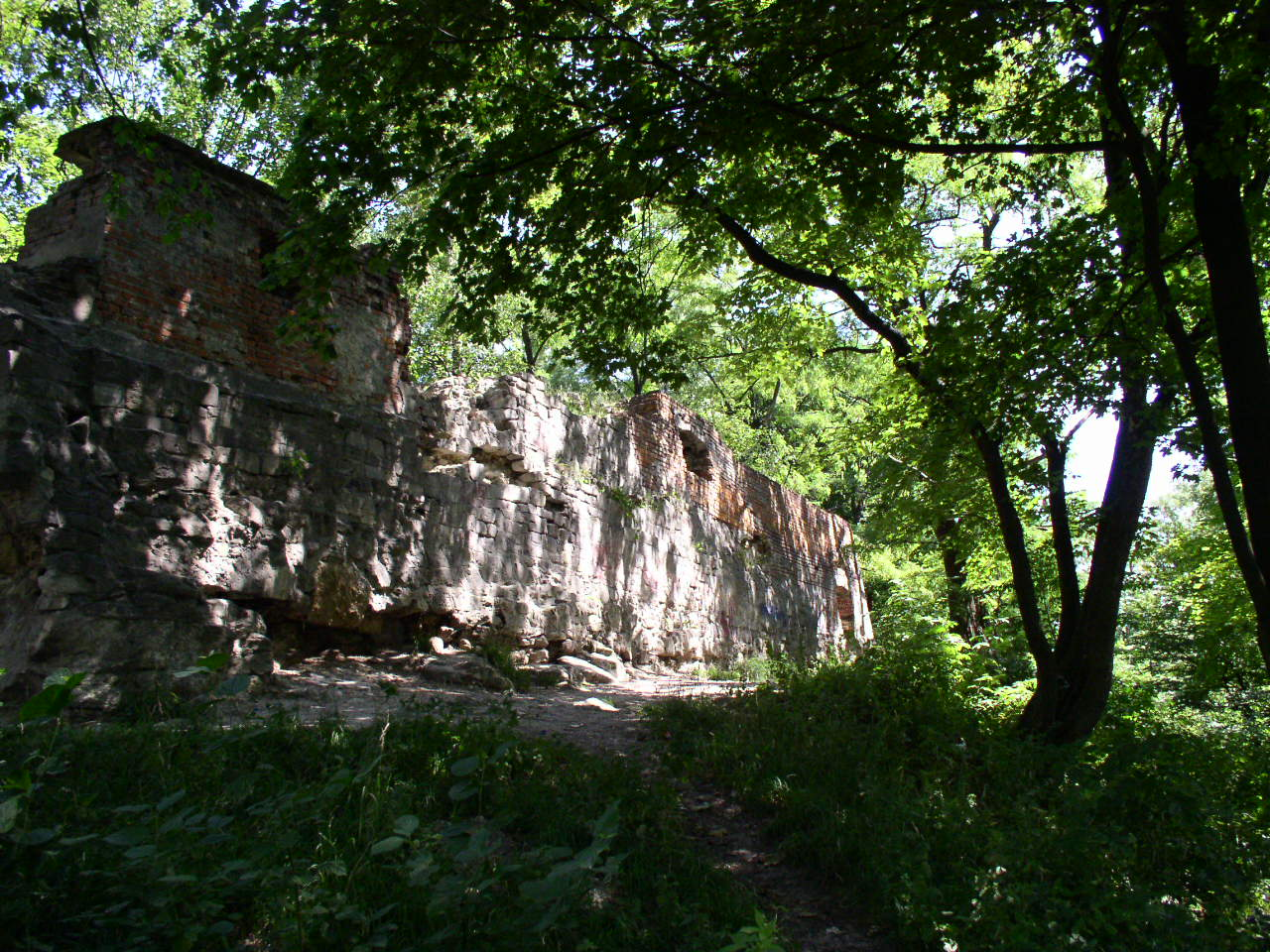 High castle. Lviv, Ukraine.